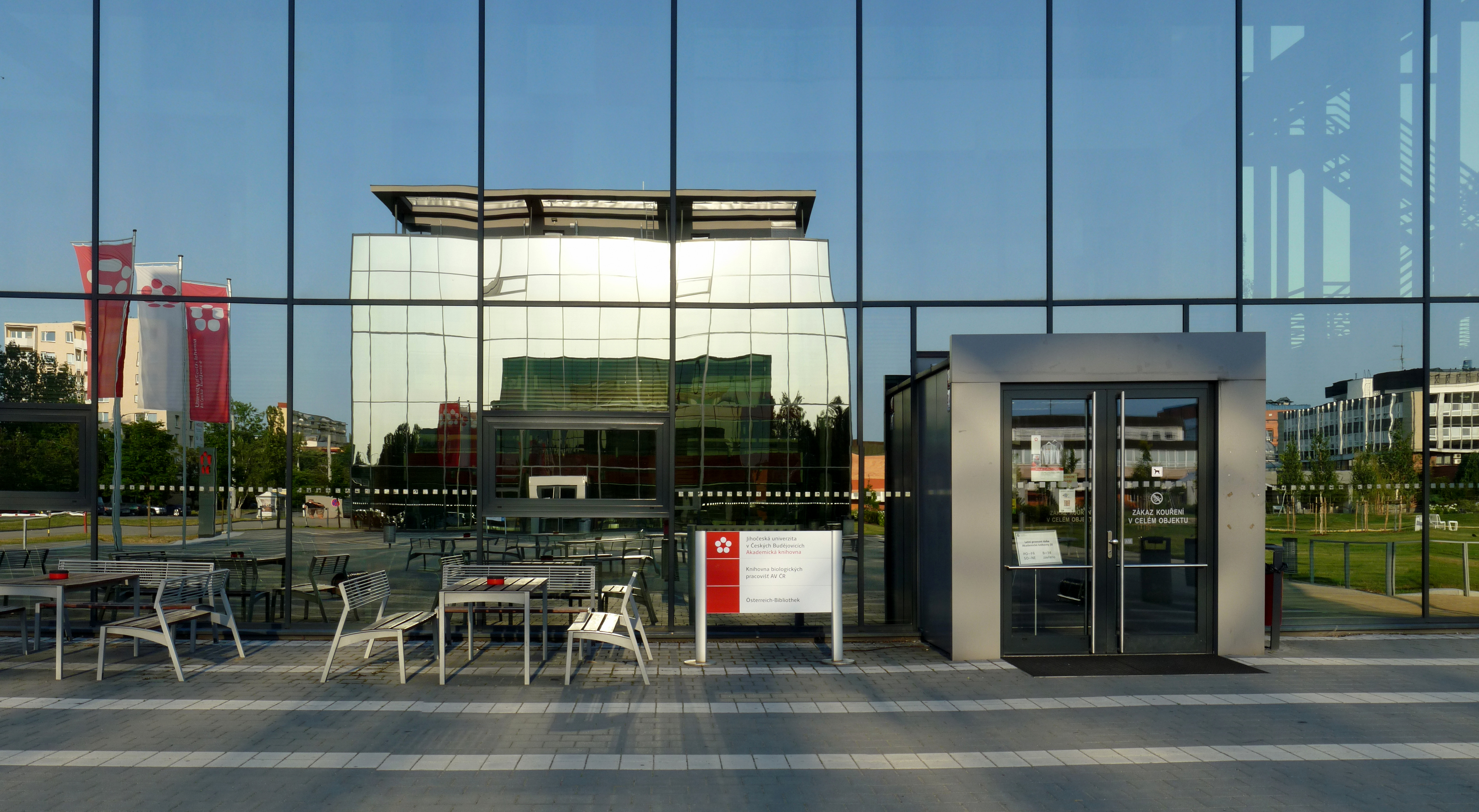 Building of the rectorate of the University of South Bohemia in České Budějovice, Czech Republic reflected on the building of the Academic Library.